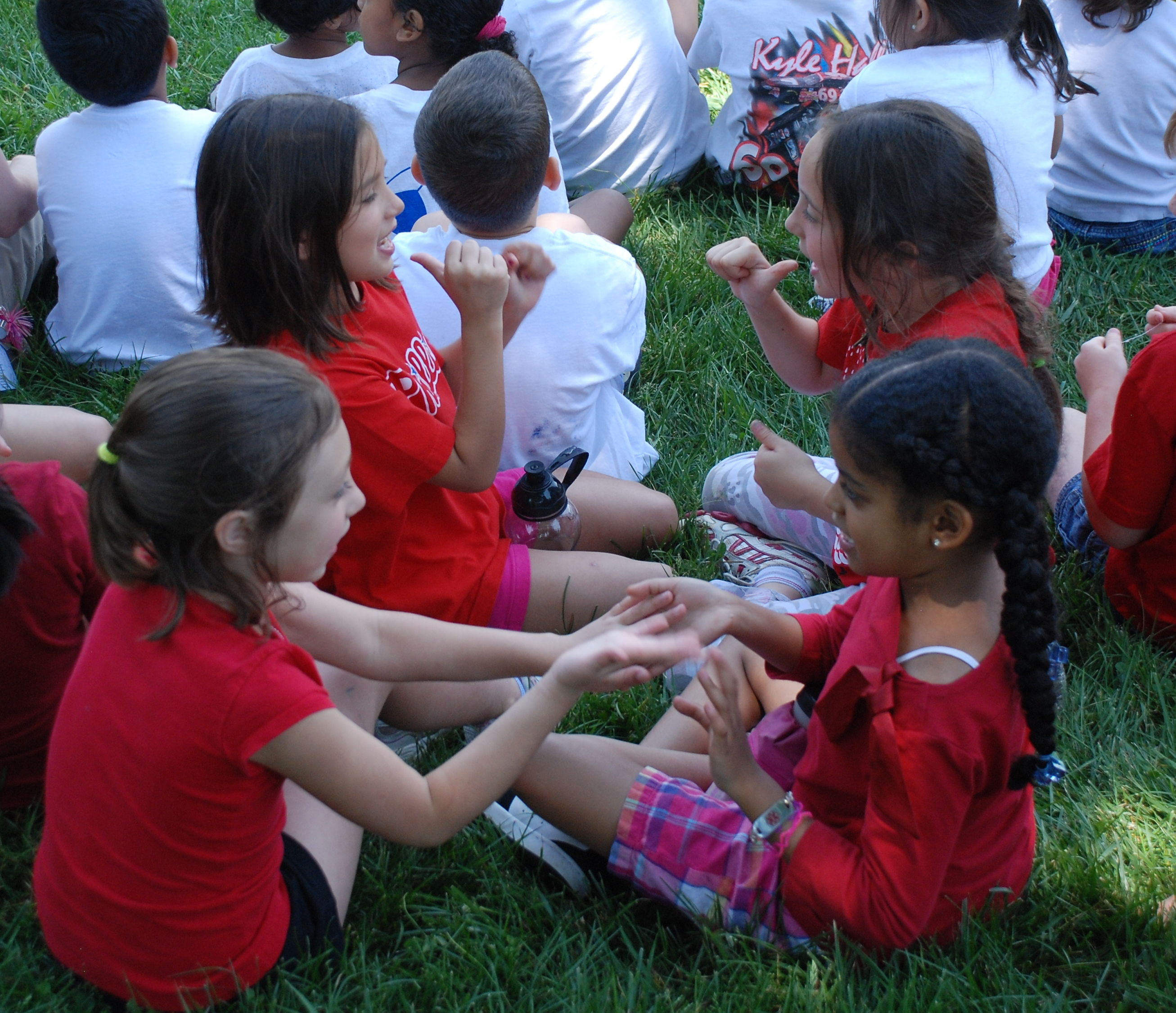 Day of sports and games at elementary school in Fairfax County, Virginia.